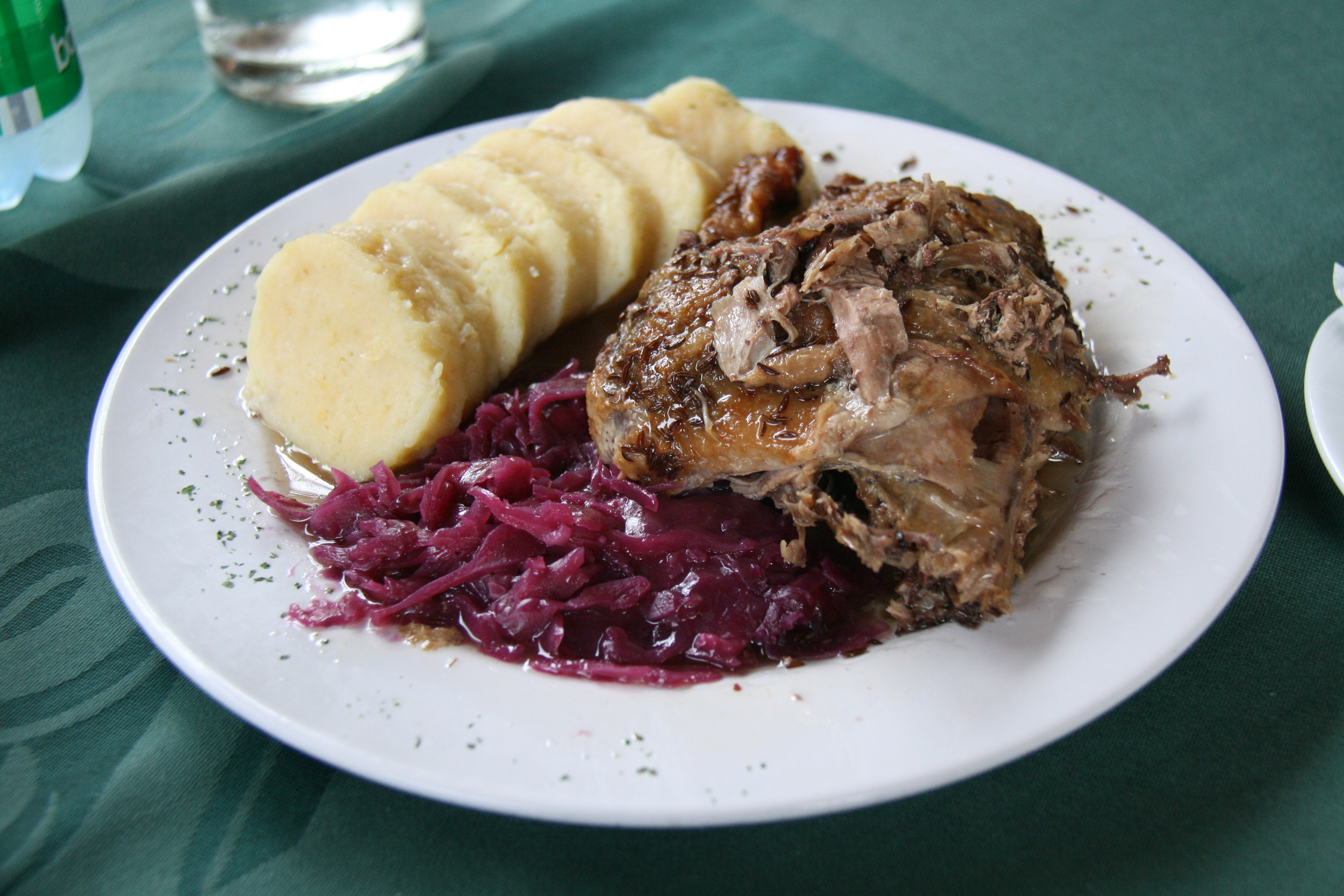 Roast duck with dumplings and red cabbage